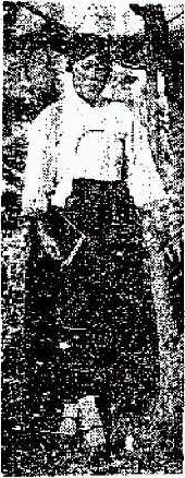 Kim Il-yeop, Korean writer, poet, journalists, buddist monks